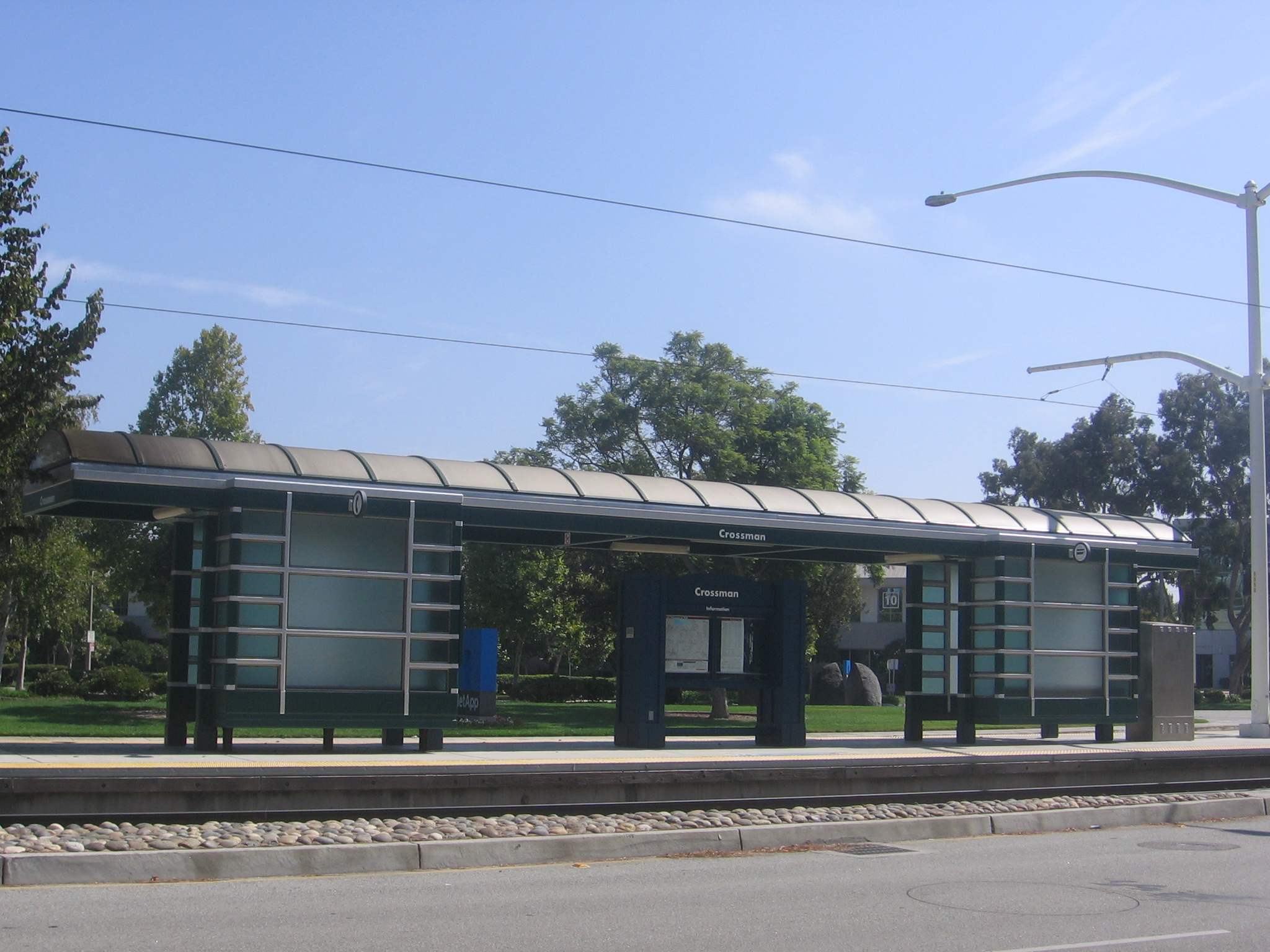 The Crossman (VTA) light rail and bus station in Sunnyside, California, USA.